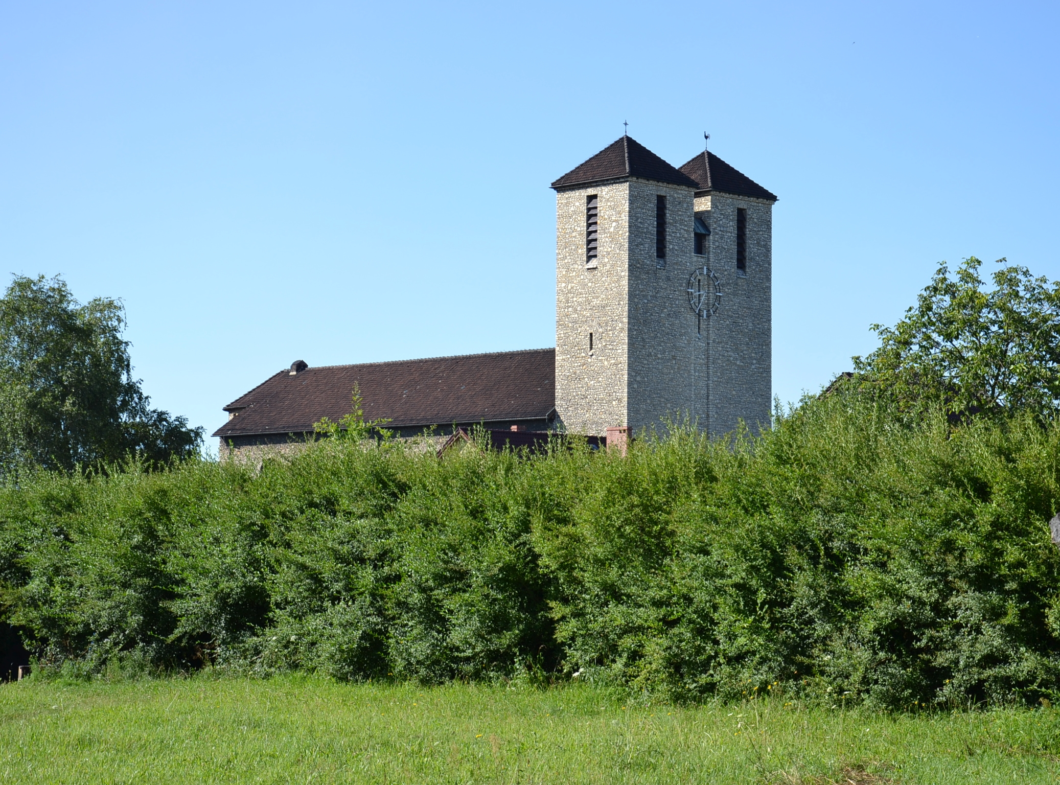 Church in Zdzieszowice (Deschowitz, Odertal O.S.), Upper Silesia